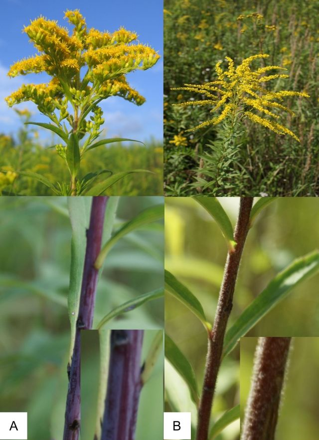 Solidago gigantea vs. Solidago canadensis